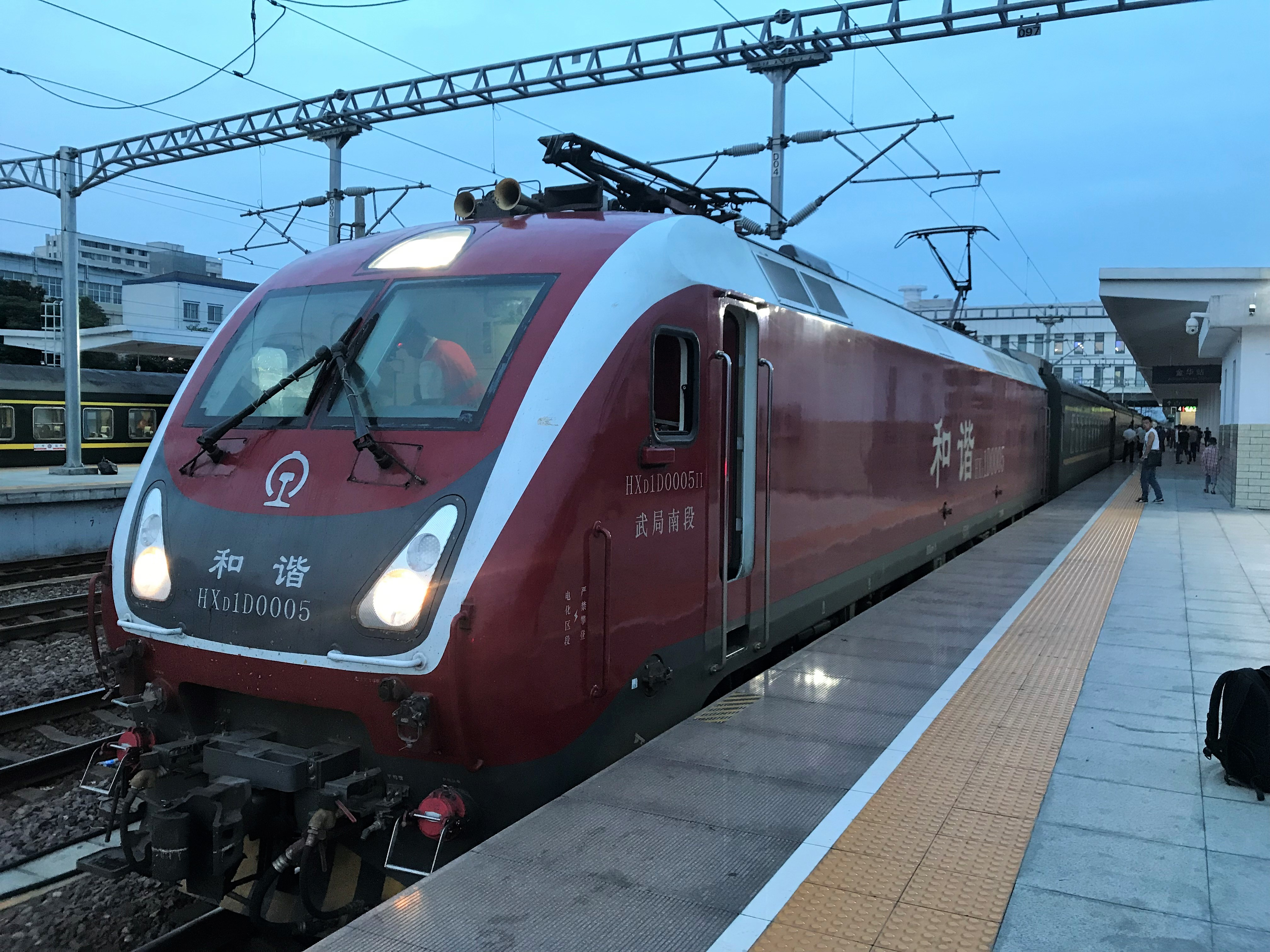 201906 HXD1D-0005 hauls Z46 from Wuchang to Hangzhou at Jinhua Station